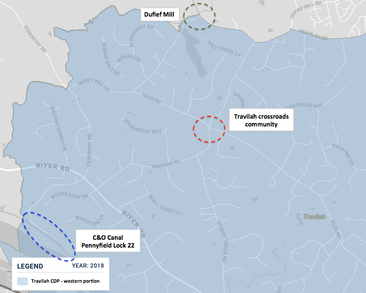 Map of western portion of Travilah CDP showing former DuFief Mill, Travilah community, and Lock 22 of C&O Canal. Both the mill and canal lock were less than two miles from Travilah. Travilah was a small crossroads community that existed in the late 1800s and early 1900s.